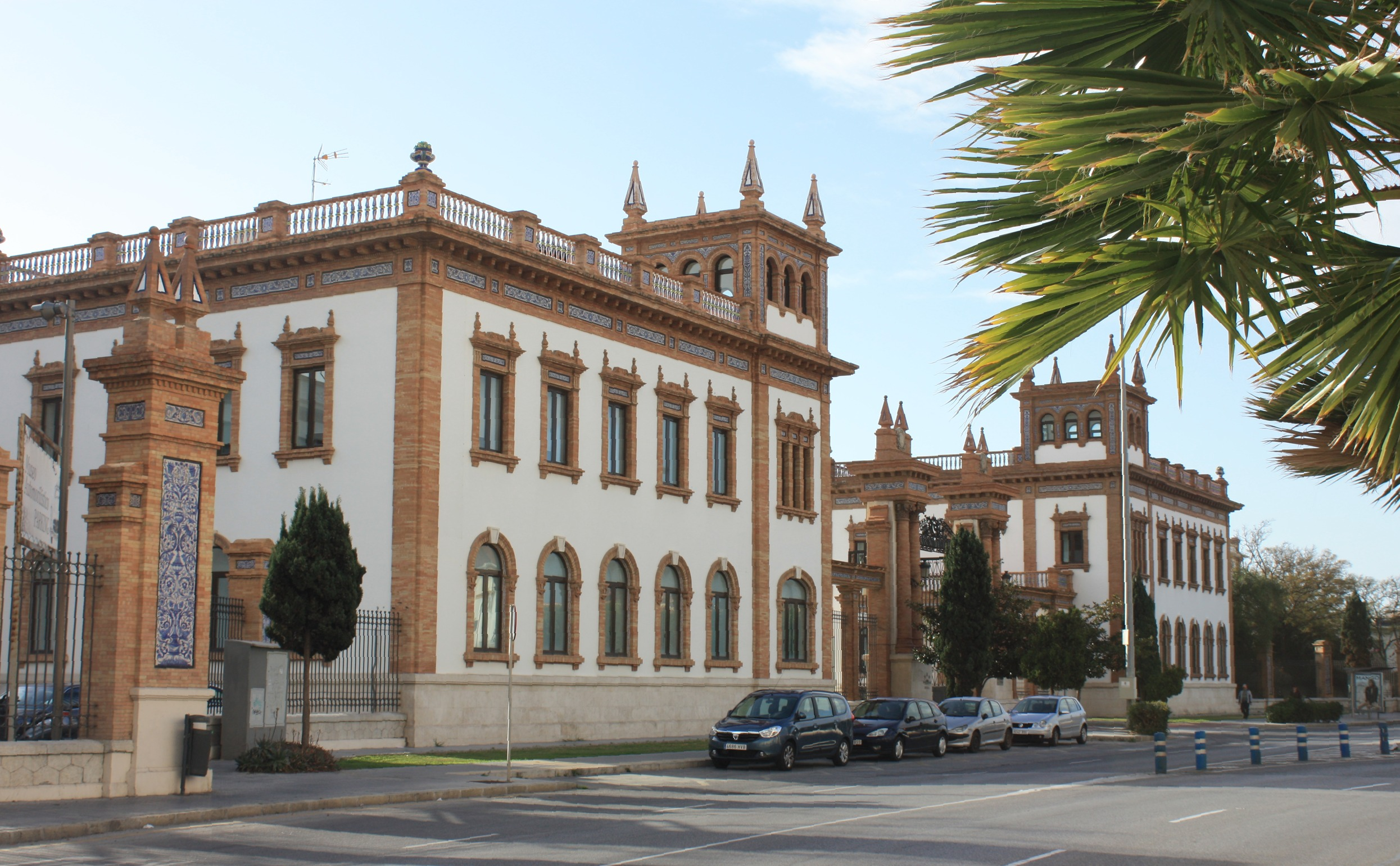 Málaga, the car museum